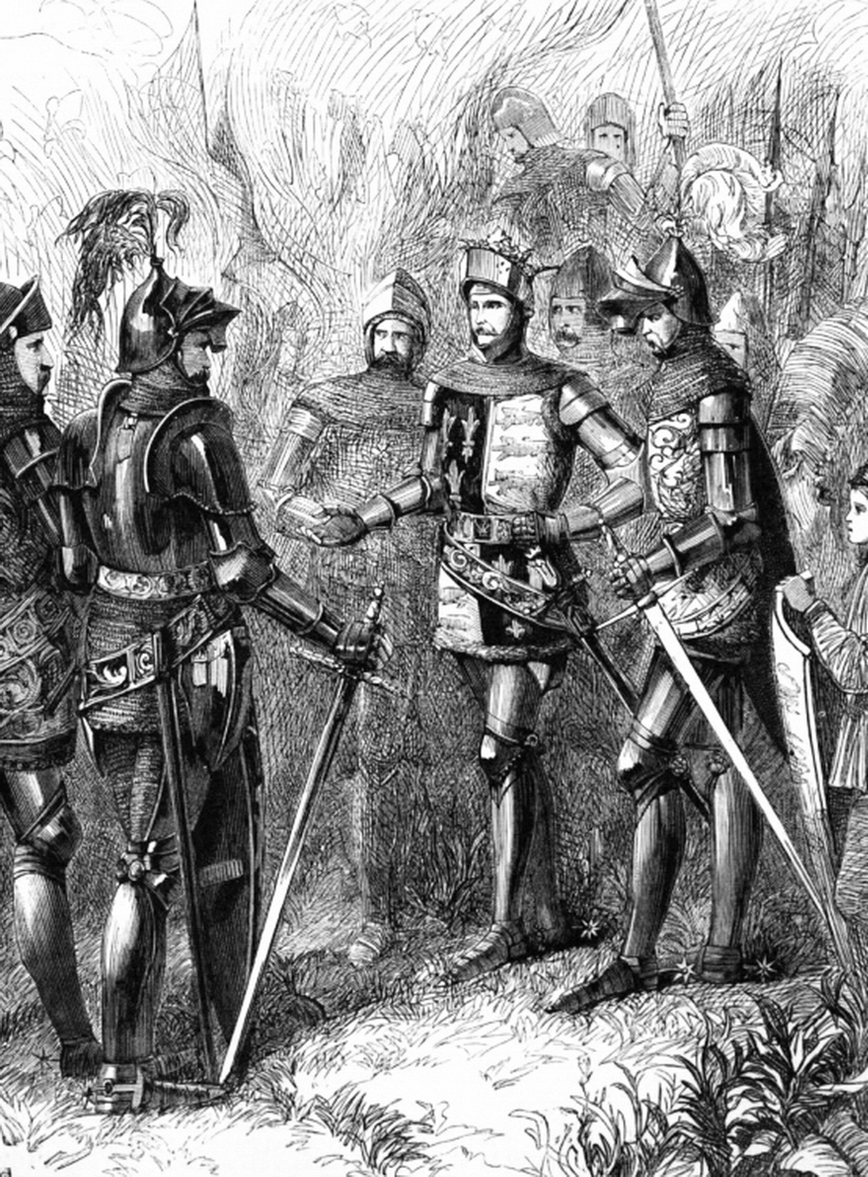 The title is the same as the image caption above & in "Cassell's Illustrated History of England, Volume 1". The number shown is the page number. Follow the image link to the full book.